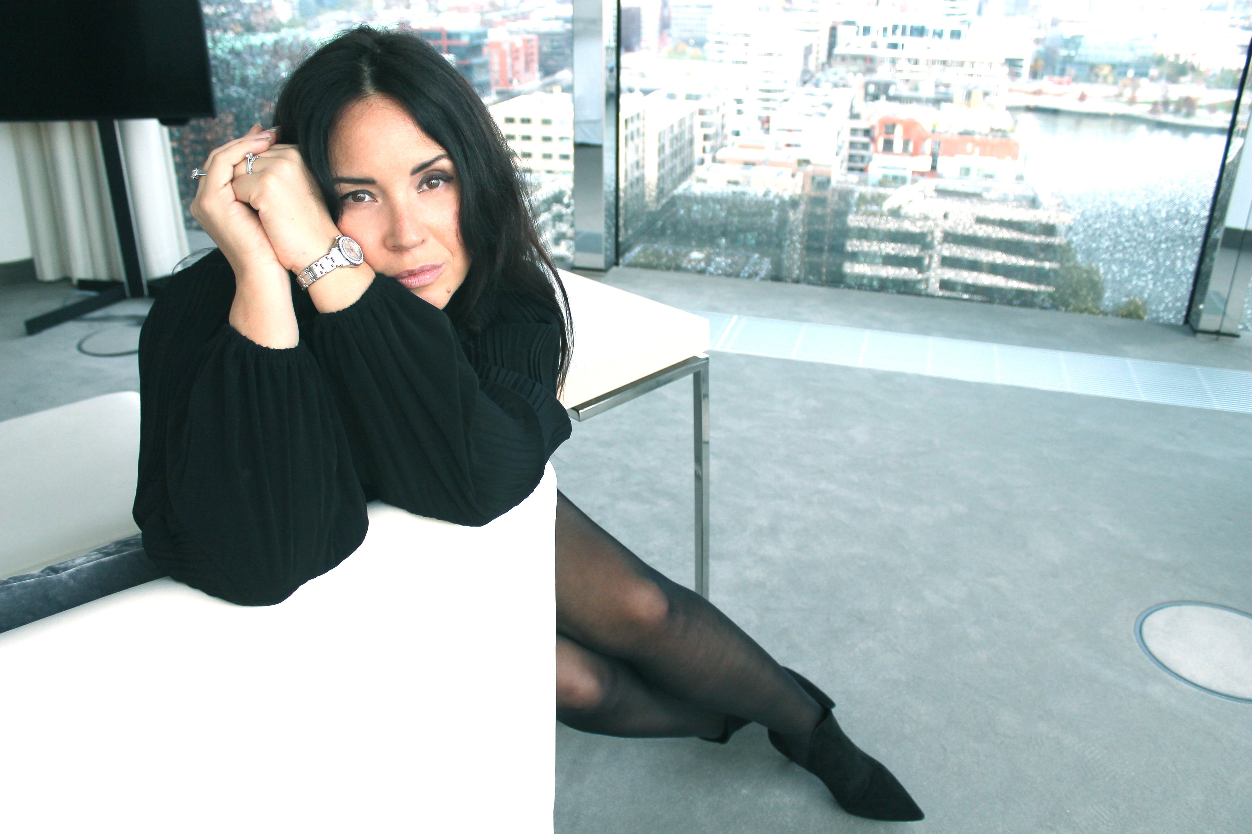 Portrait photo of soprano Sonya Yoncheva in Hamburg 2019